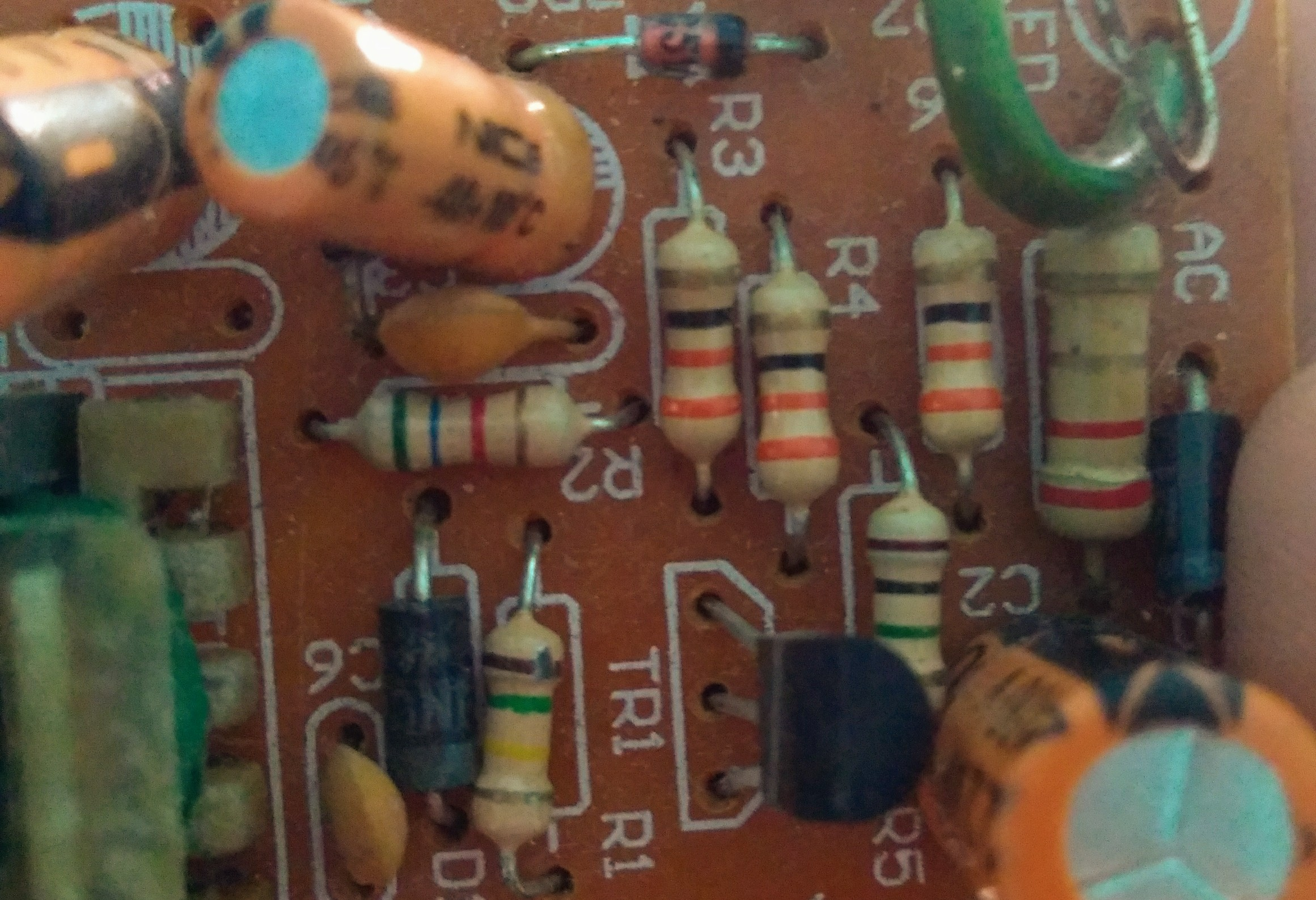 various electronic components, including resistors, transistors(bottom right) various types of capacitors, diodes and zener diodes(top) in a printed circuit board from a dc adaptor.